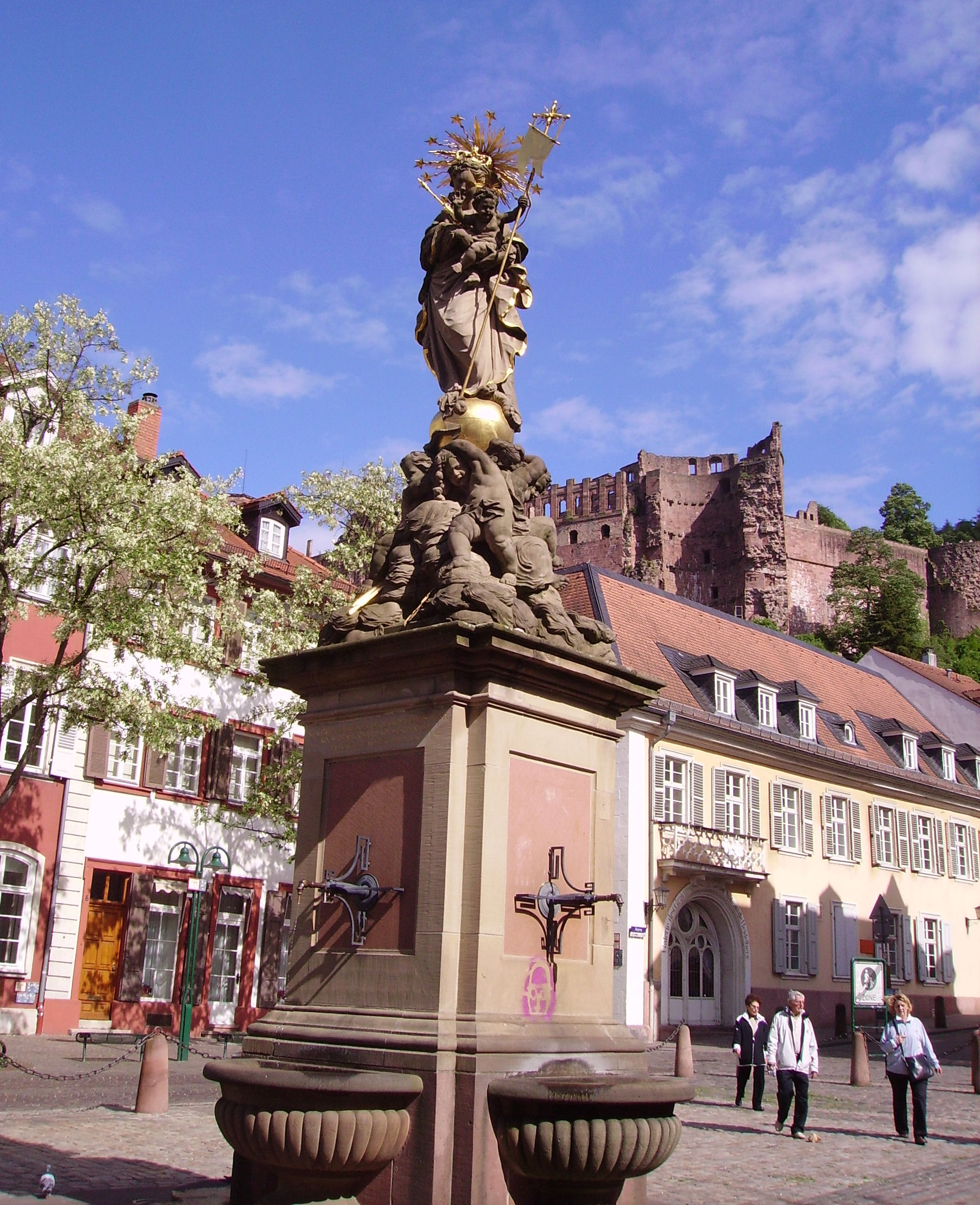 fountanin and statue in Heidelberg, Germany